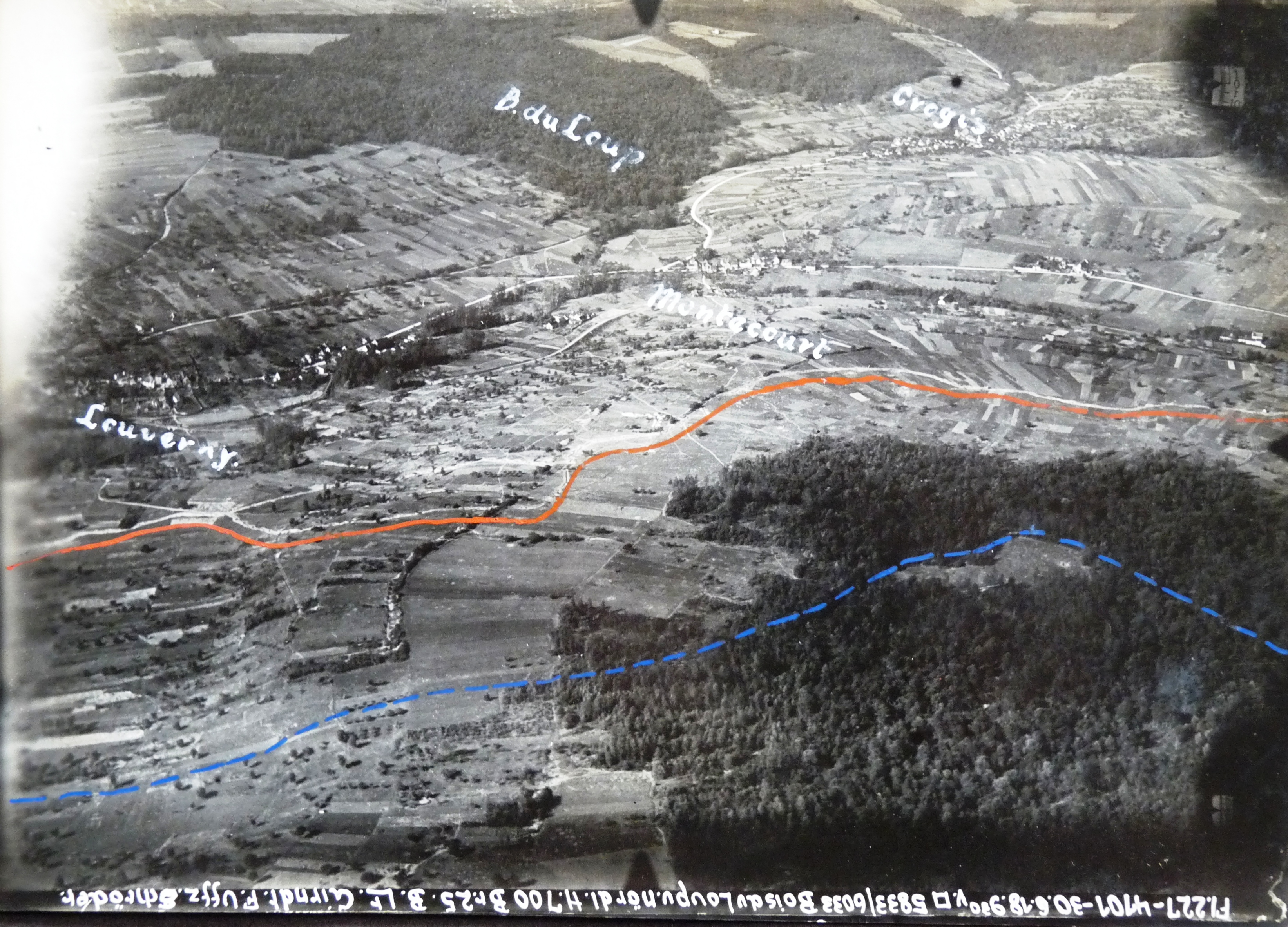 Aerial view of Chateau-Thierry, on july 6th 1918.